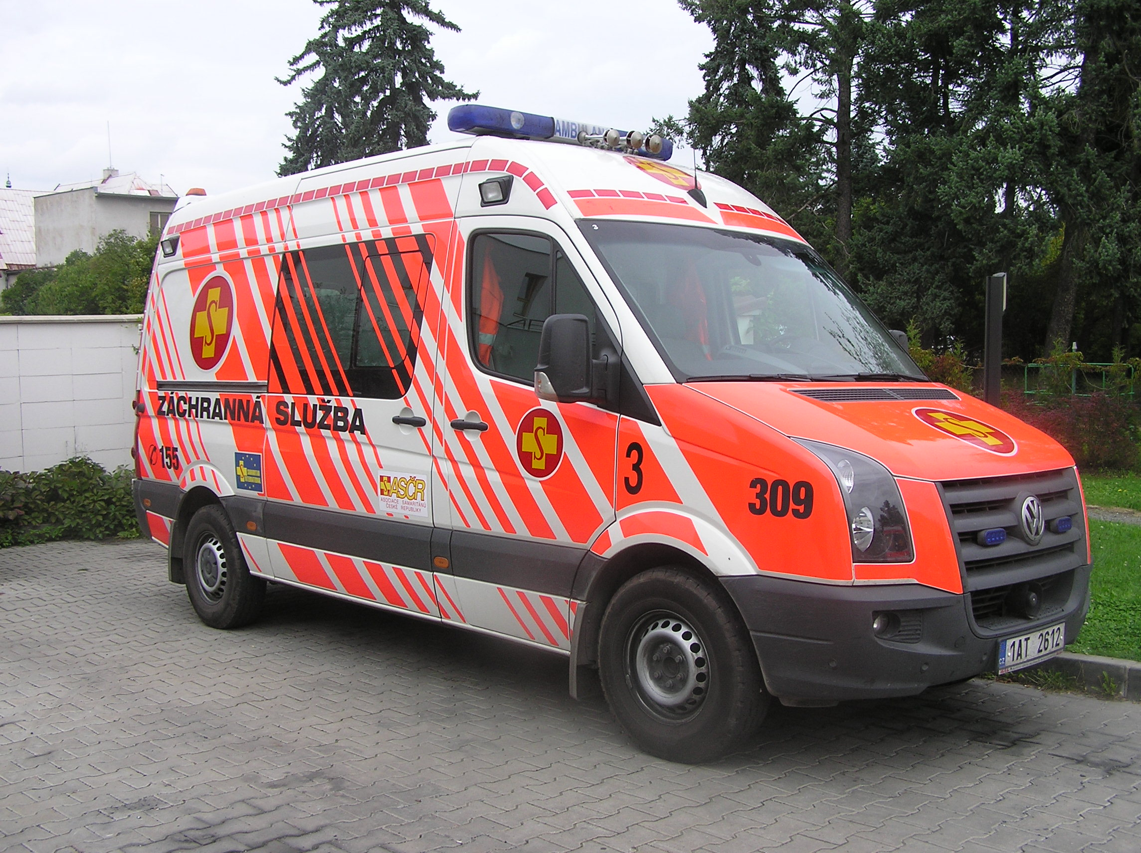 Ambulance vehicle of the Association of the Samaritans of the Czech Republic, Prague 5 - Zbraslav